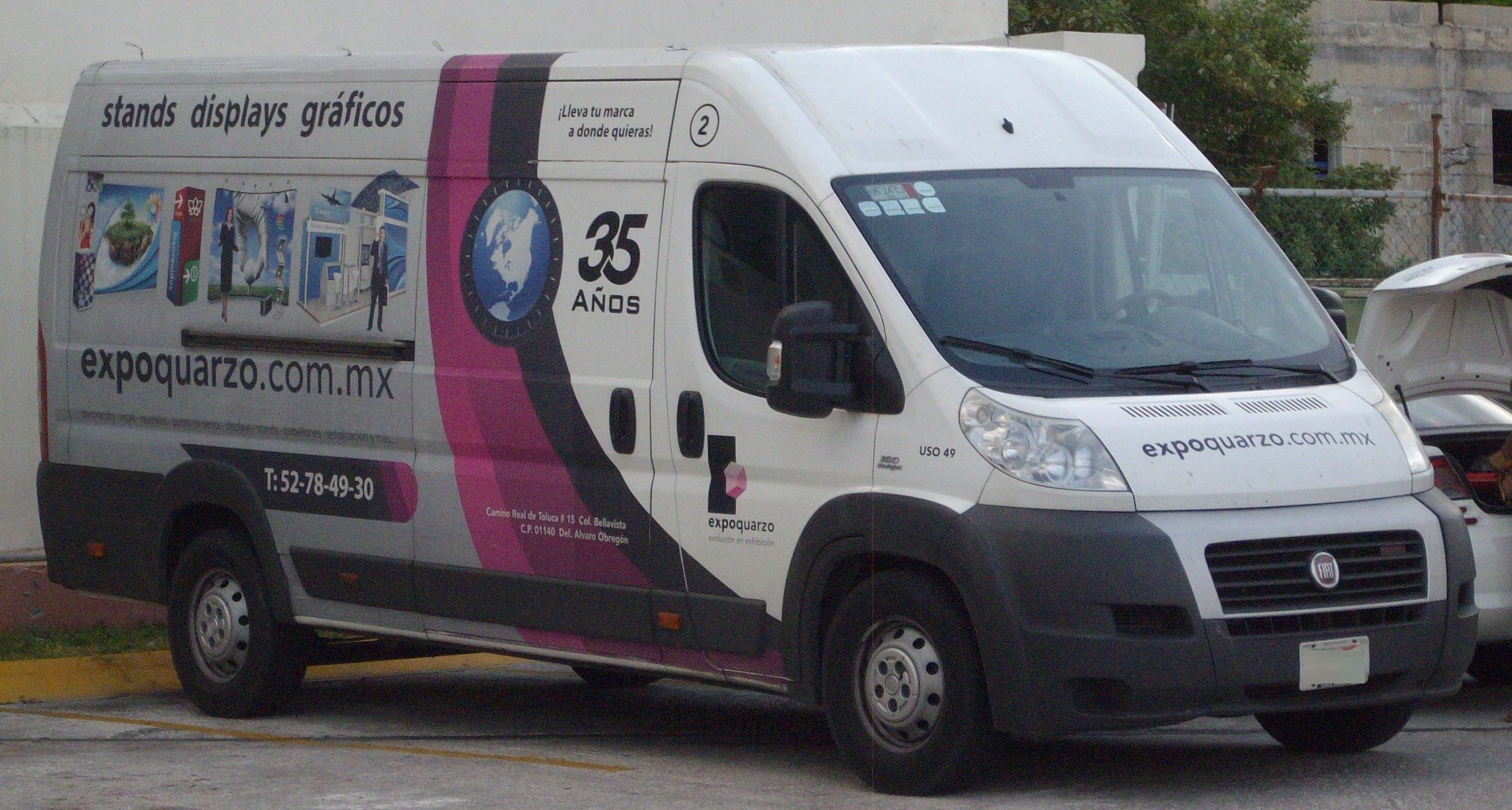 Fiat Ducato photographed in Cancun, Quintana Roo, Mexico.